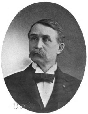 David Whitney Curtis (Wisconsin Assemblyman)